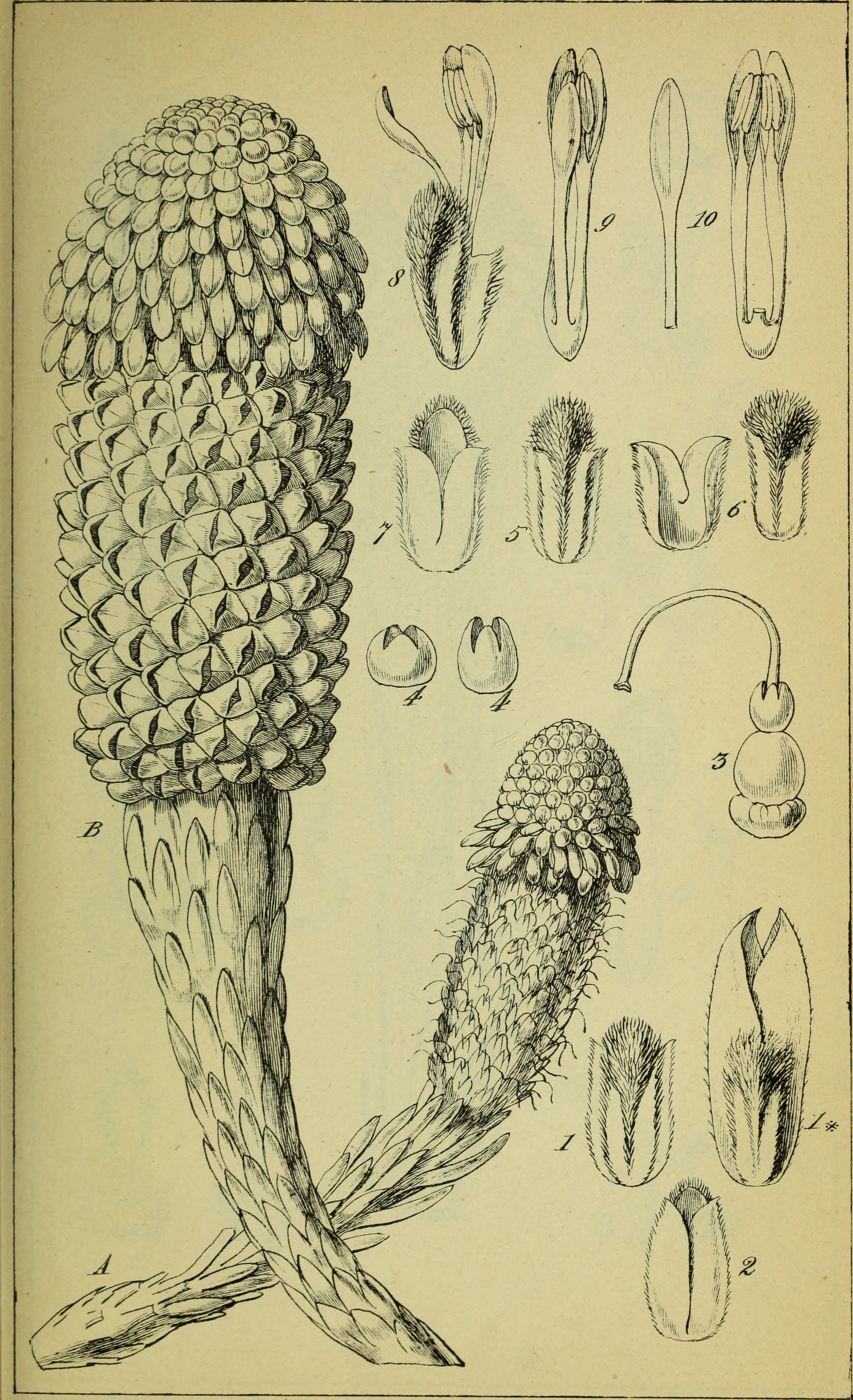 Title: Annals of natural history Year: 1838 (1830s) Authors: Subjects: Natural history; Botany; Zoology; Geology Publisher: [S. l. : s. n. ] Text Appearing Before Image: Jiw AaLEist Vol.RFl XTX. Text Appearing After Image: .Mi/strope//z/i?n 77wmi/.